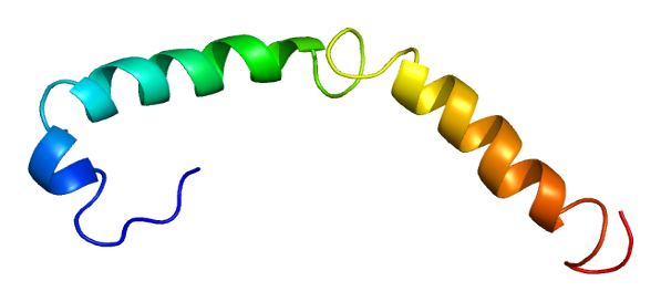 Structure of the APOC1 protein. Based on PyMOL rendering of PDB 1ioj.